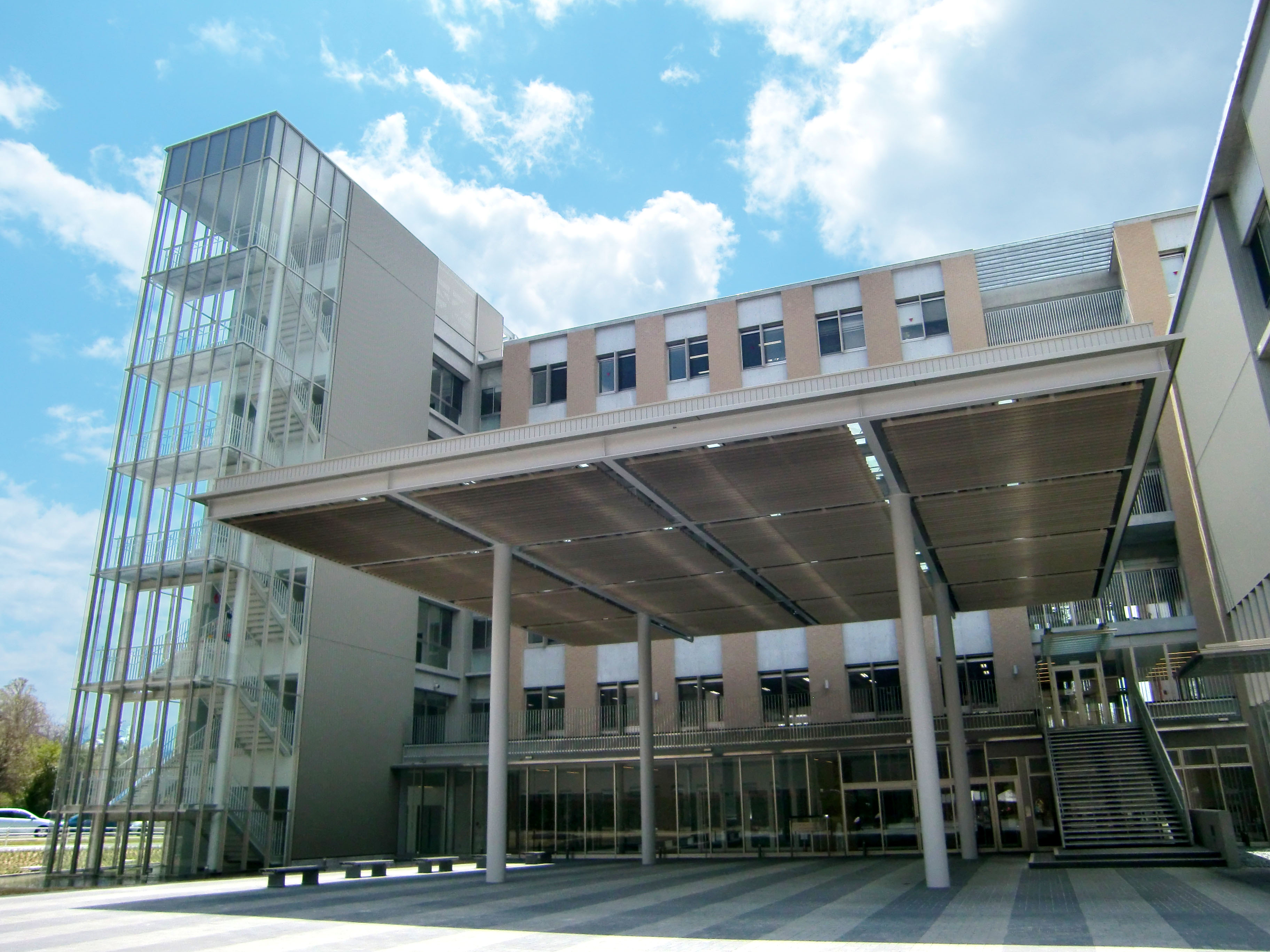 Integration Core (Ritsumeikan University Biwako Kusatsu Campus), 1-1-1 Nojihigashi Kusatsu-City Shiga JAPAN.